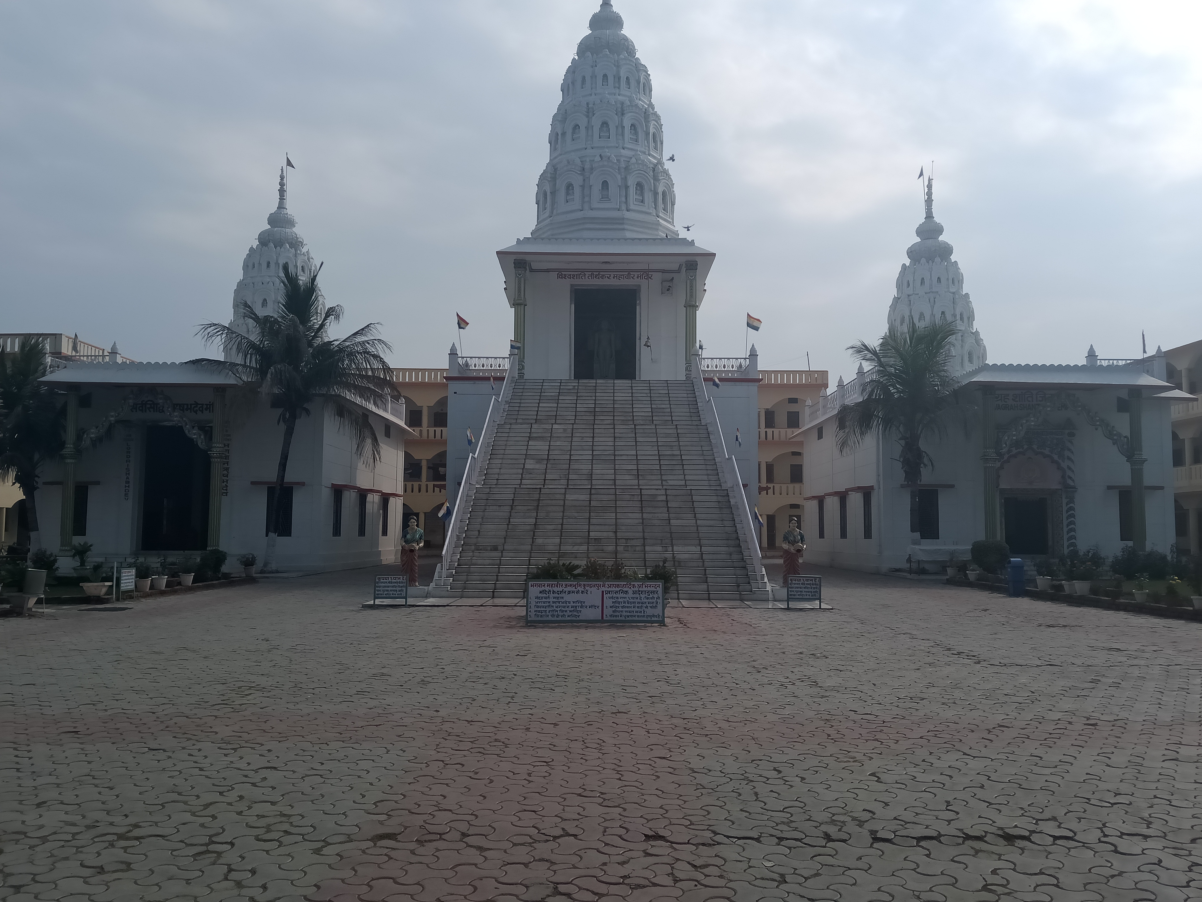 Kundalpur Jain temples at Nalanda